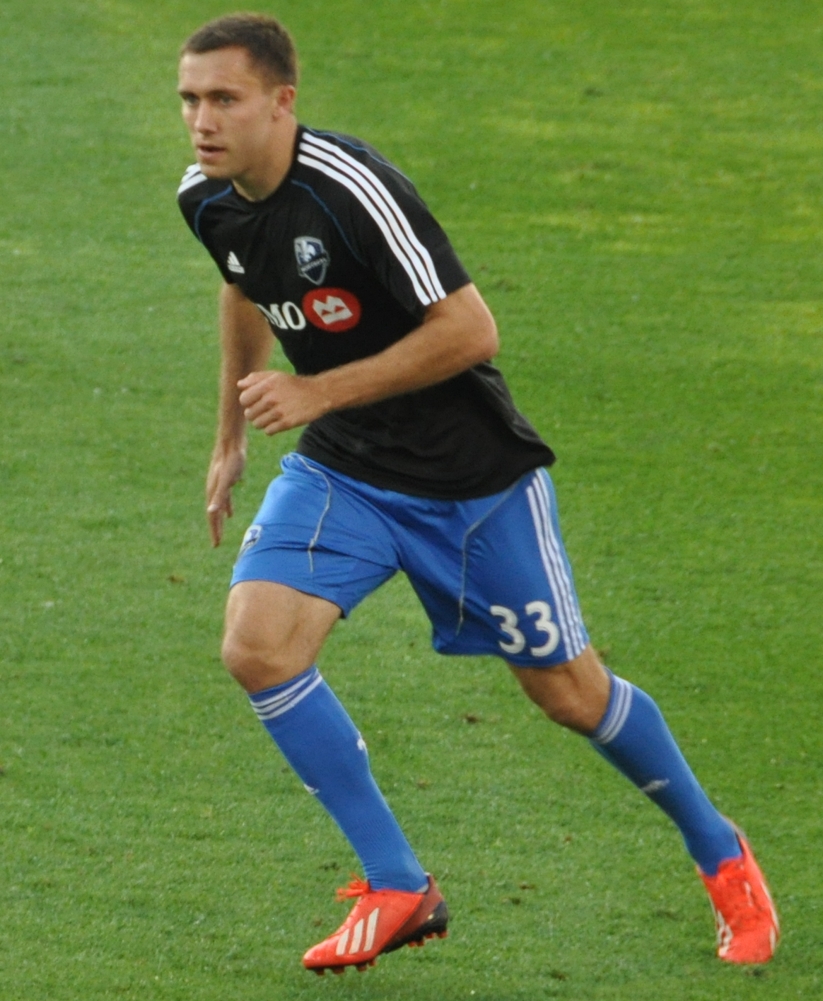 Andrew Wenger of the Montreal Impact warming up before a Major League Soccer (MLS) game against the Houston Dynamo at Stade Saputo in Montreal, 19 June 2013.